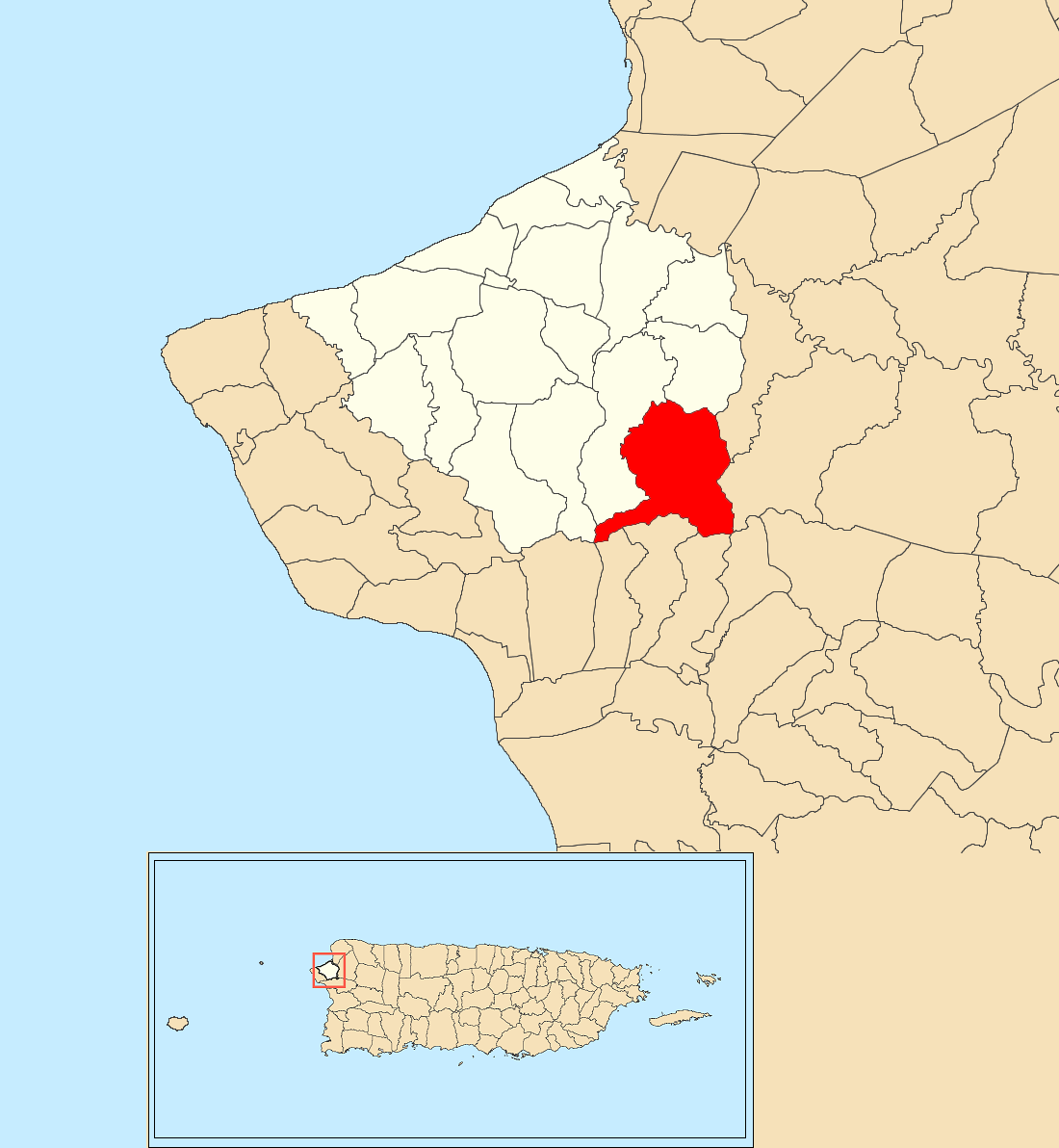 Cerro Gordo, Aguada, Puerto Rico locator map